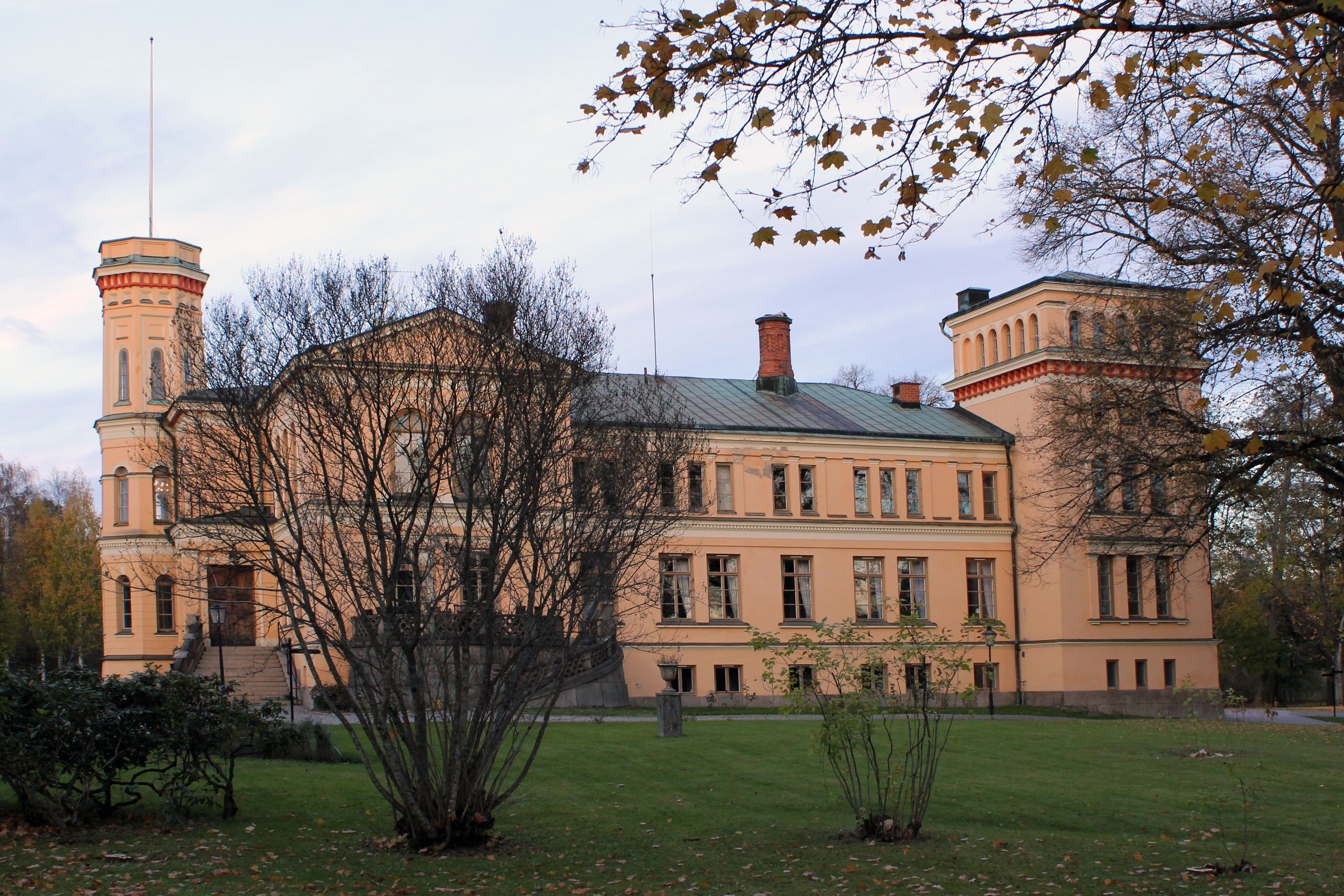 Surahammar mansion, Västmanland, Sweden